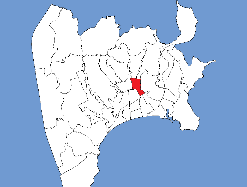 Location of the neighbourhood Libration in Nice